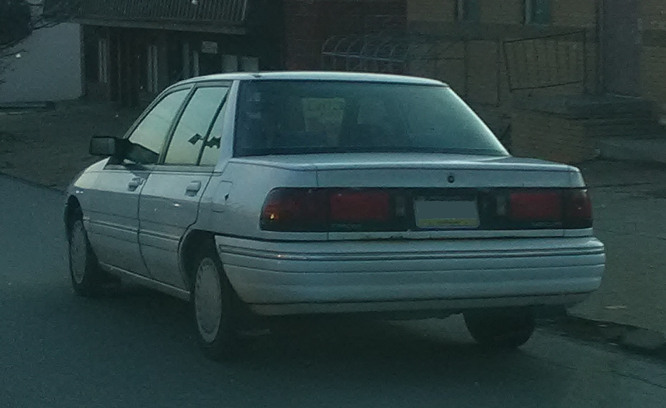 1991-1996 Mercury Tracer sedan photographed in New Castle, Pennsylvania